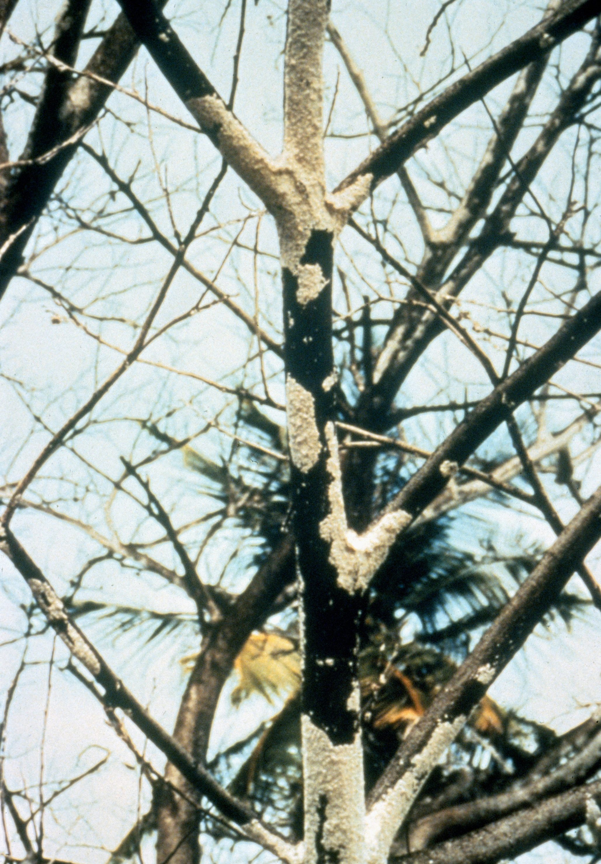 Maconellicoccus hirsutus infested Saman tree showing parasites on trunk and branches. This tree was killed.